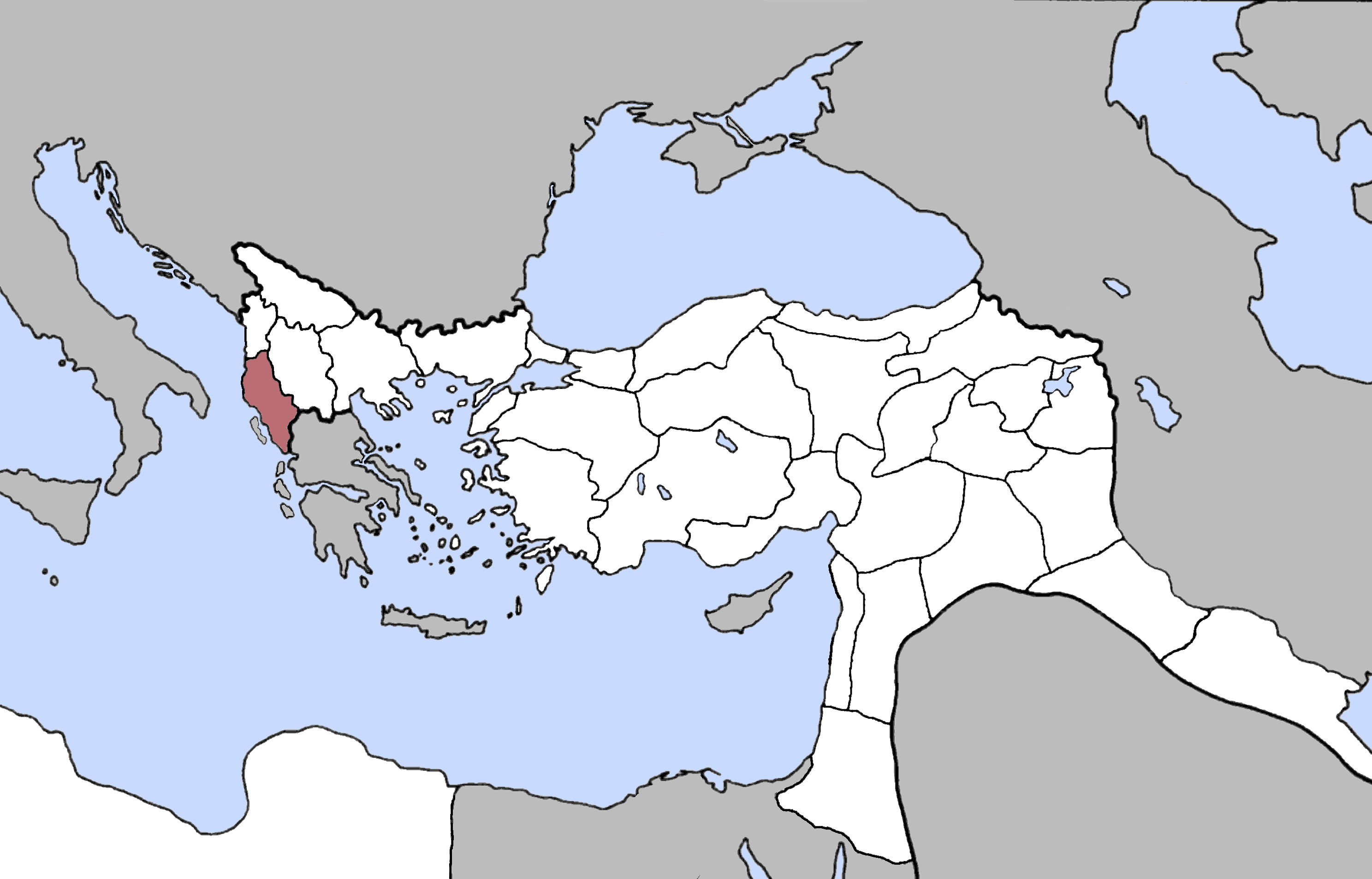 XY Vilayet, Ottoman Empire (1900). Source: An Economic and Social History of the Ottoman Empire, Volume 2 at Google Books By Suraiya Faroqhi, Bruce McGowan, Donald Quataert, Sevket Pamuk